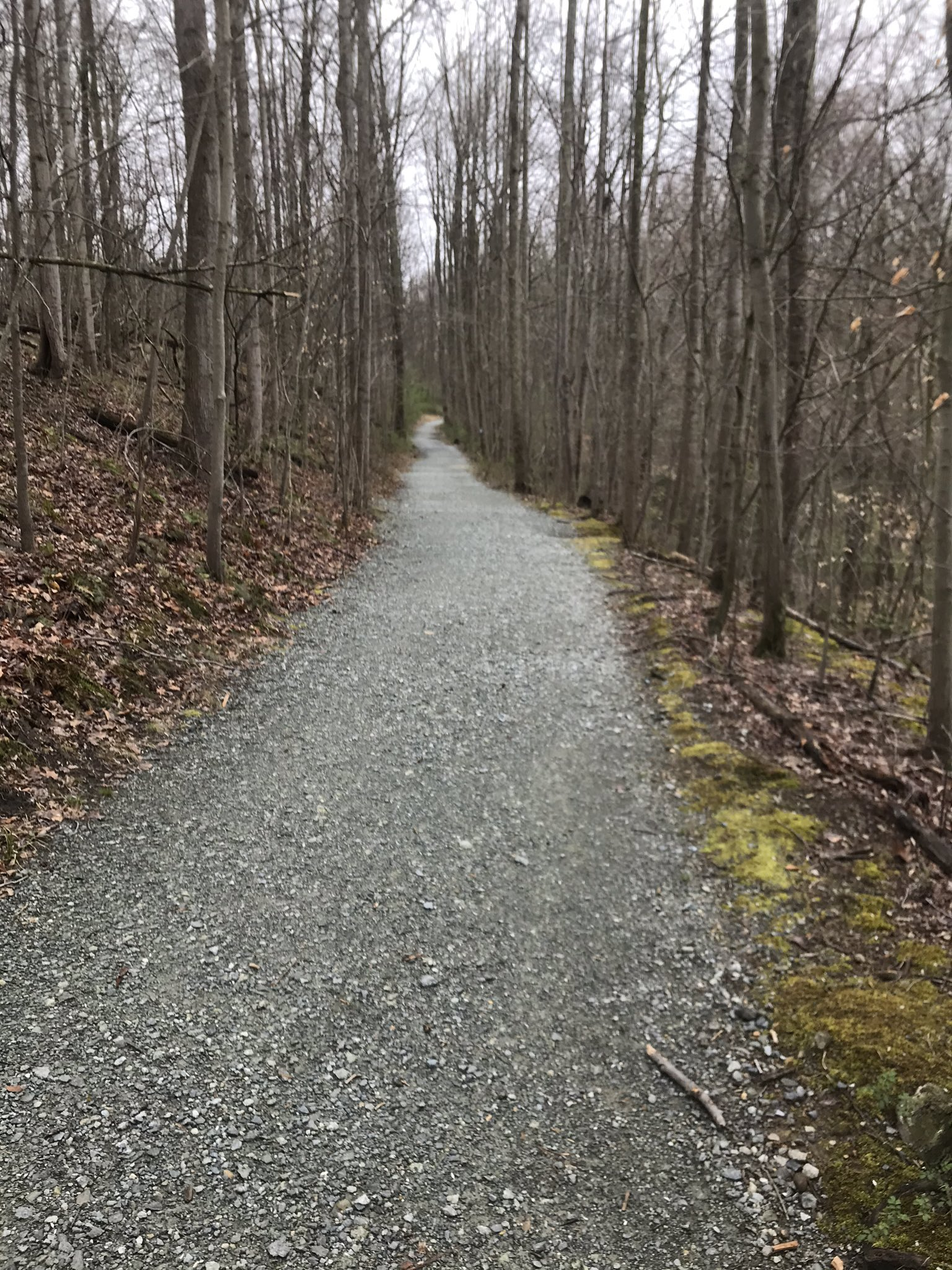 The unpaved Lake Side Trail next to Lake Bernard Frank in Derwood, Maryland